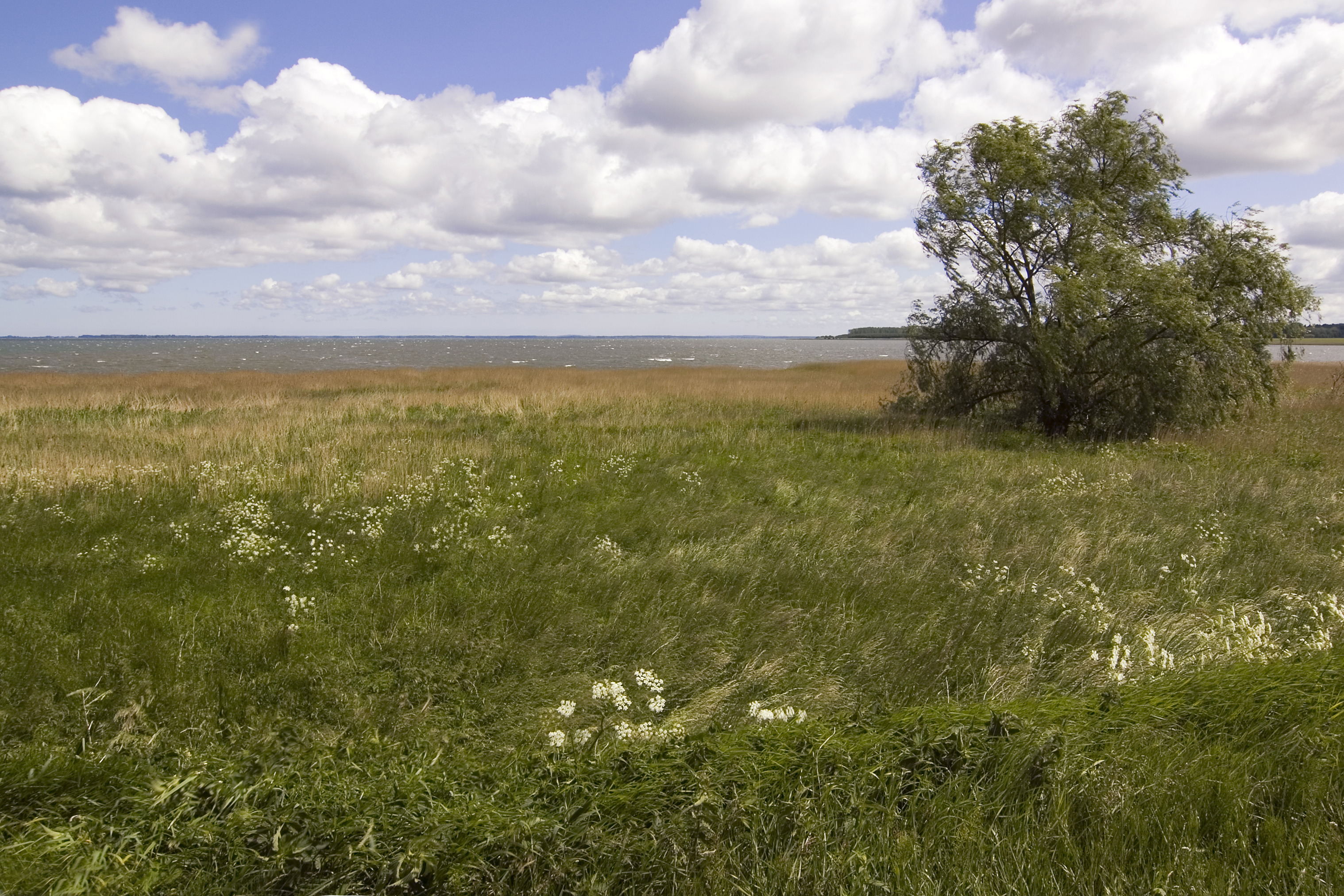 Prohner Wiek, landscape in Mecklenburg-Vorpommern